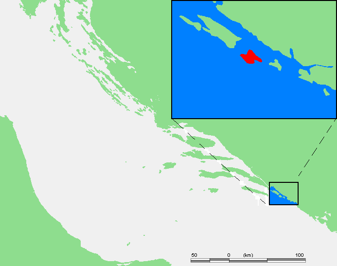 Island of Croatia - Croatia - Elafit Islands - Lopud.PNG